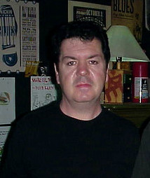 Lol Tolhurst (on the left) with a fan